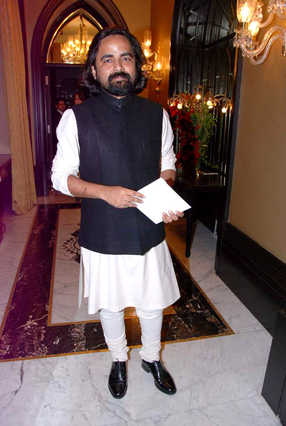 Sabyasachi Mukherjee at the launch of Zoya Banaras collection by Taj Khazana